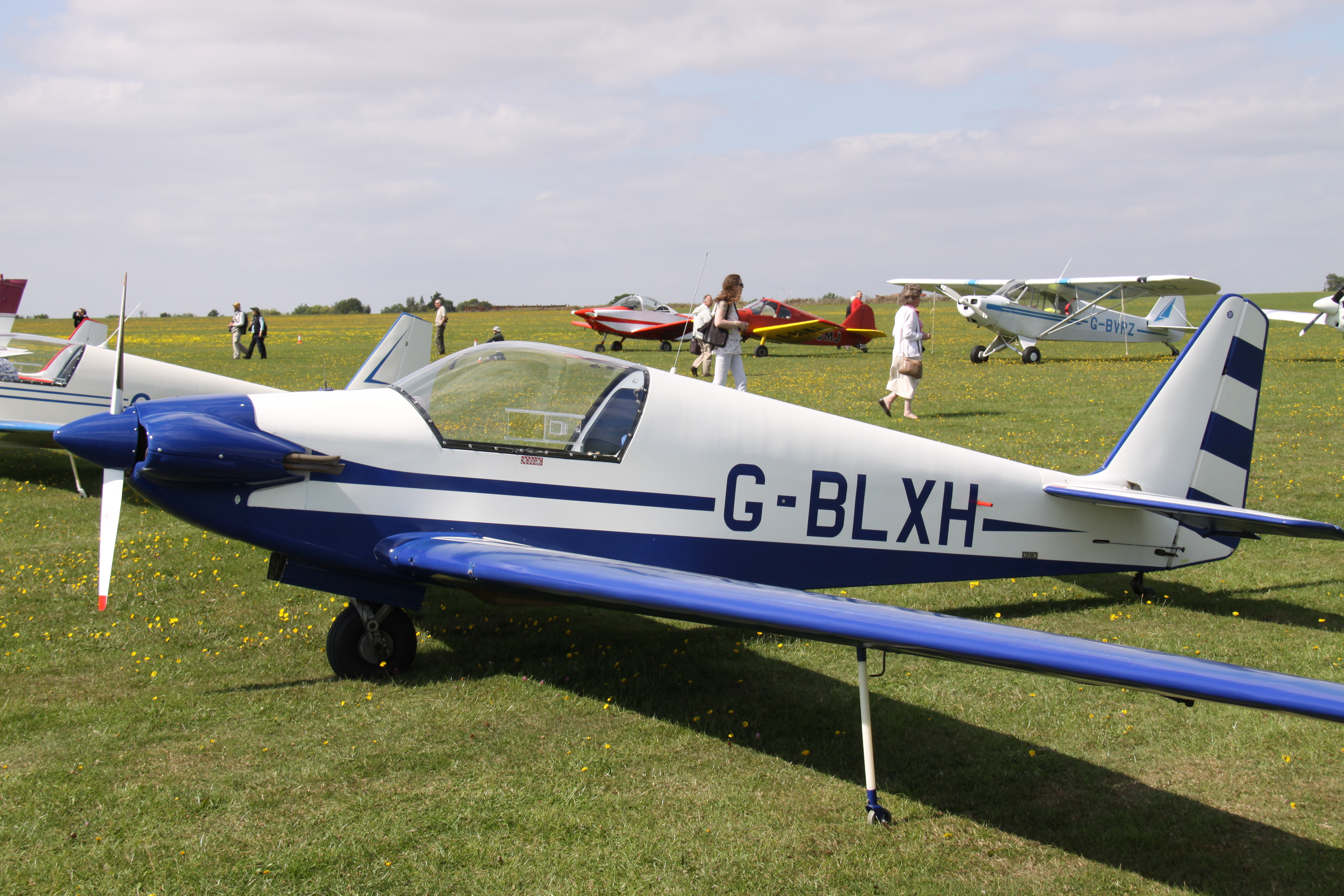 At Sywell Airfield